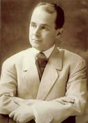 Photo of Winsor McCay, c. 1906